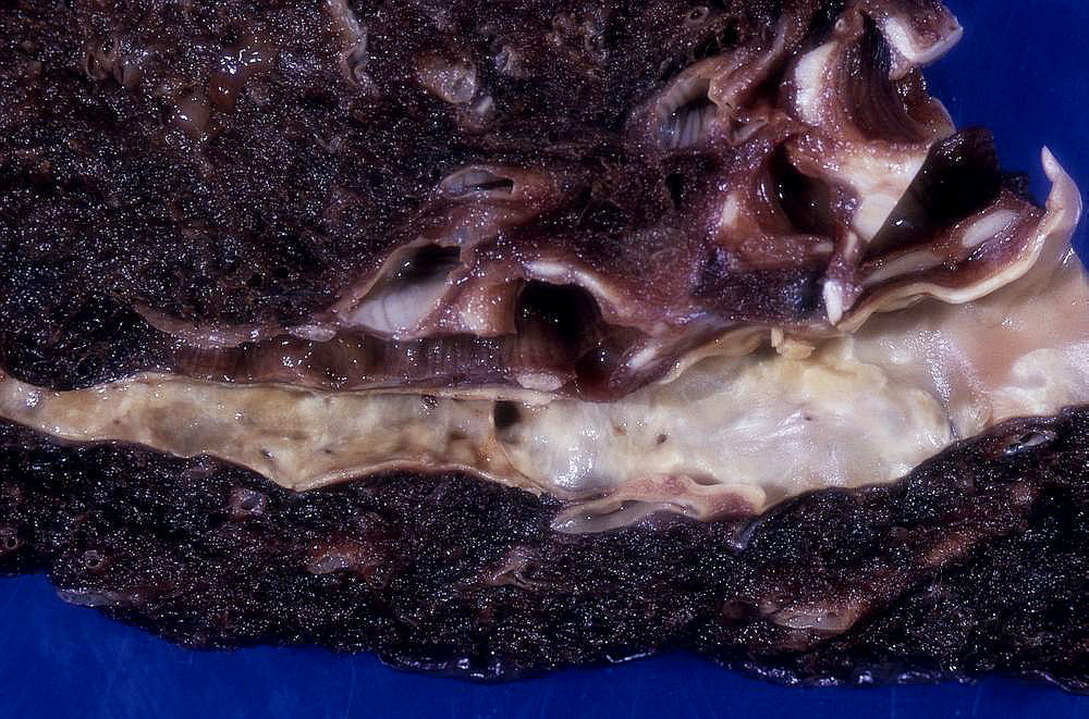 Pulmonary artery atherosclerosis-Pulmonary hypertension